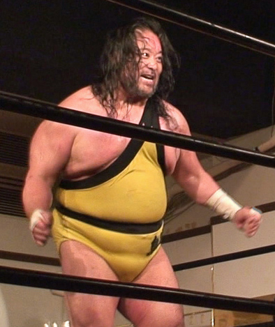 Tarzan Goto at the mixed tag tournament in Asakusa, Taitō, Tokyo on May 10, 2009